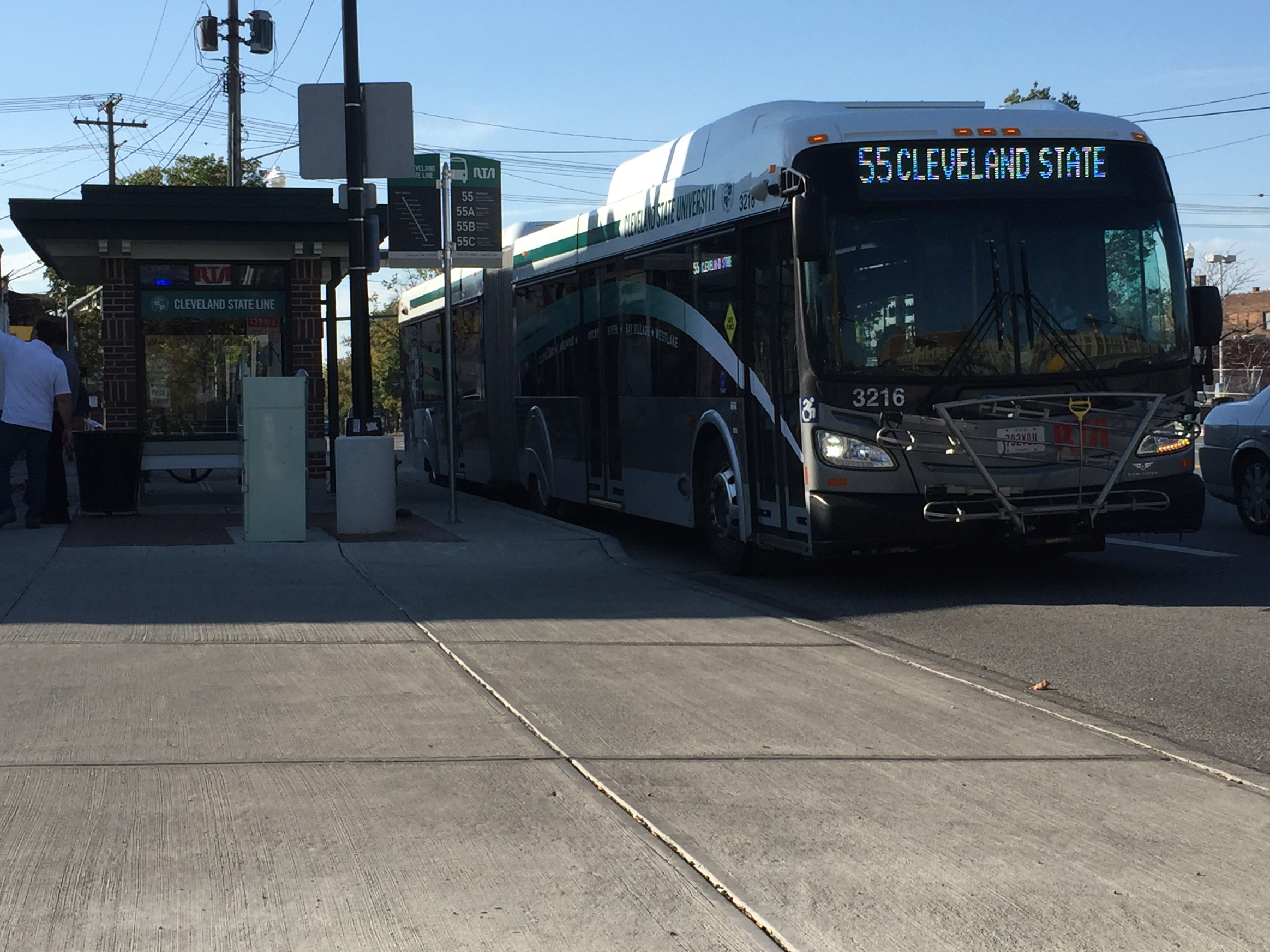 A BRT Vehicle on the RTA Cleveland State Line at West 117th and Clifton.